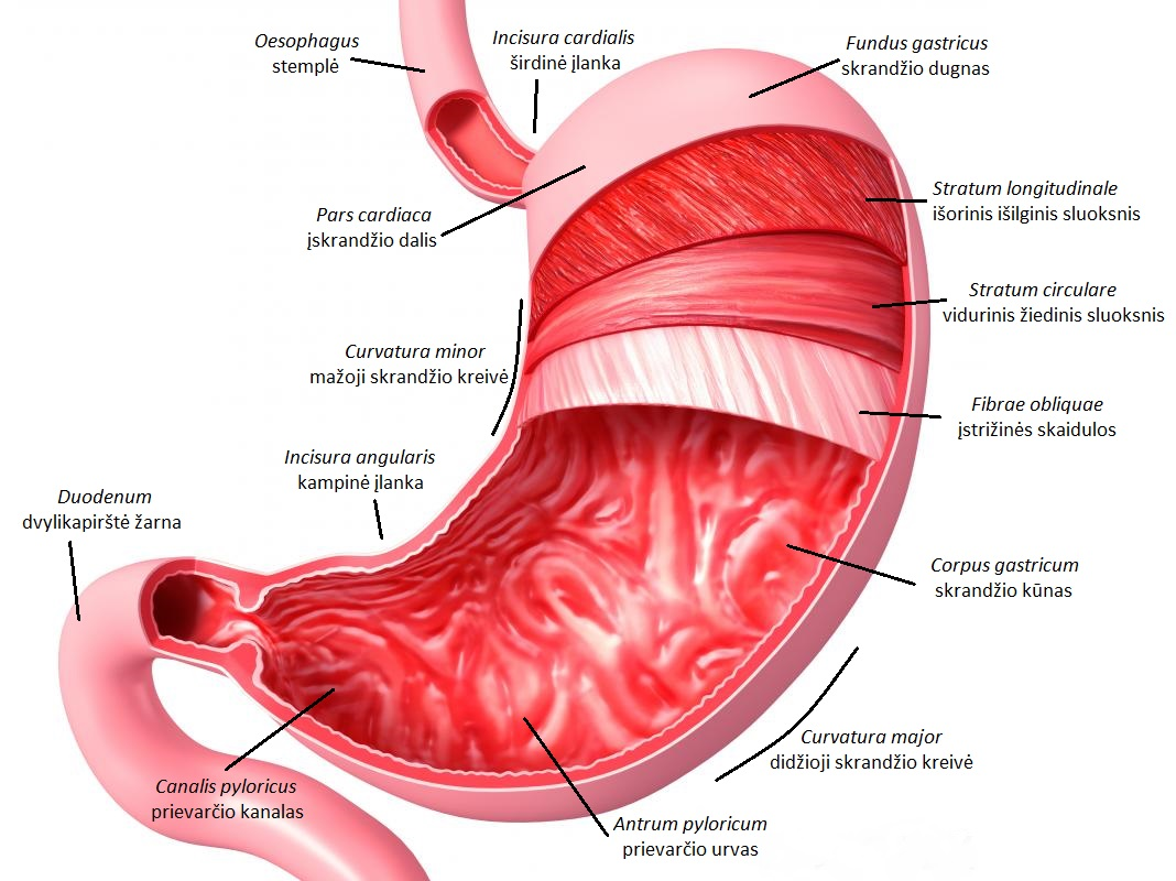 Human stomach crossection